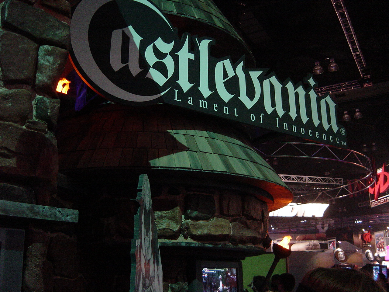 Taken on May 15, 2003 Dowtown Carrier Annex, Los Angeles, CA, US Sony Cybershot